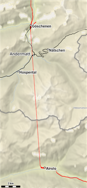 Gotthardtunnel.